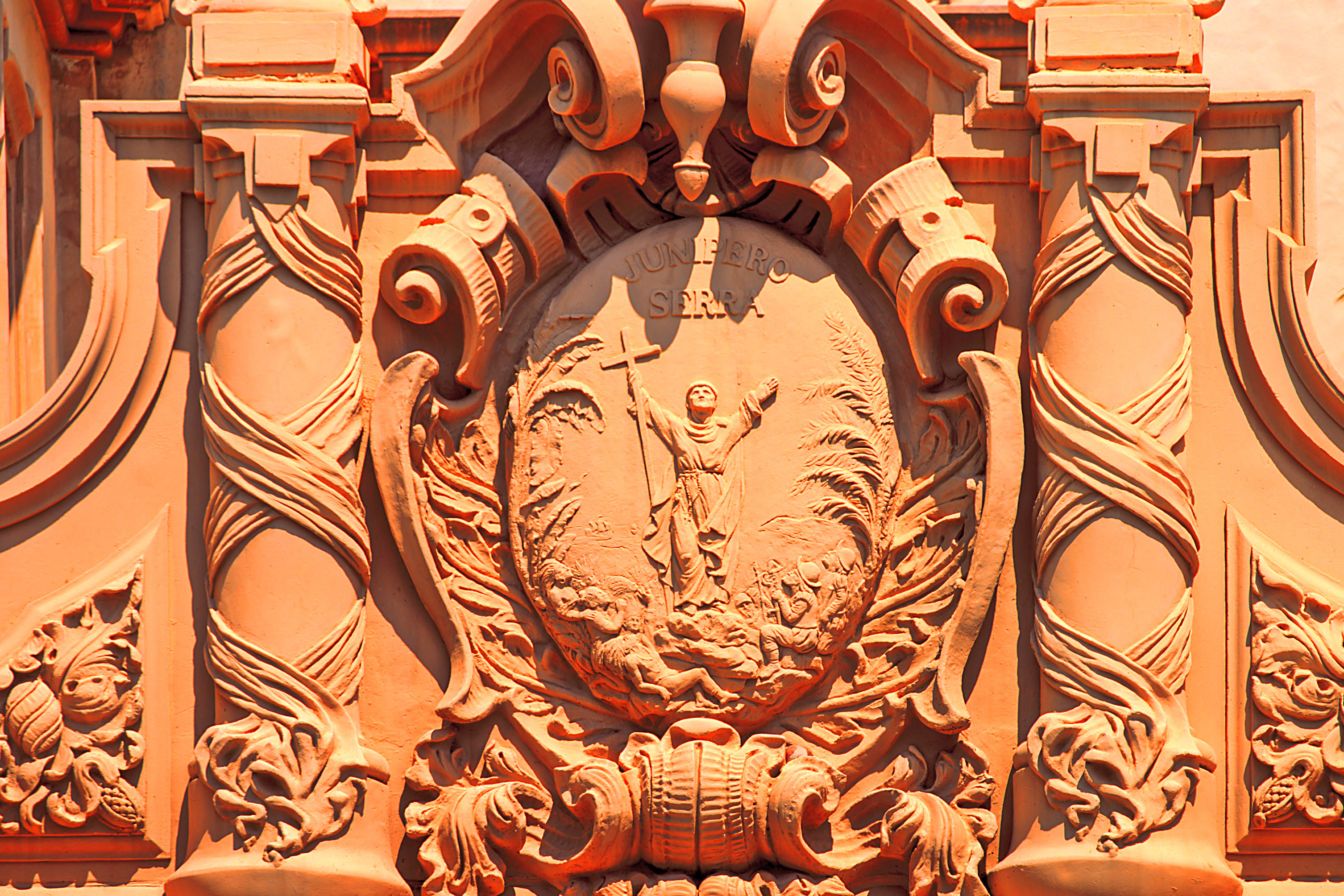 A close-up Look at the wonderful architecture on many of the buildings in Balboa Park.